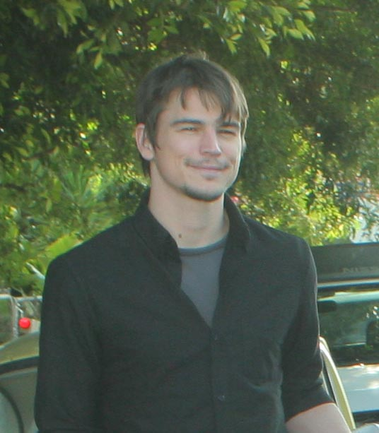 American actor Josh Hartnett. Photo released by the Ford Motor Company.